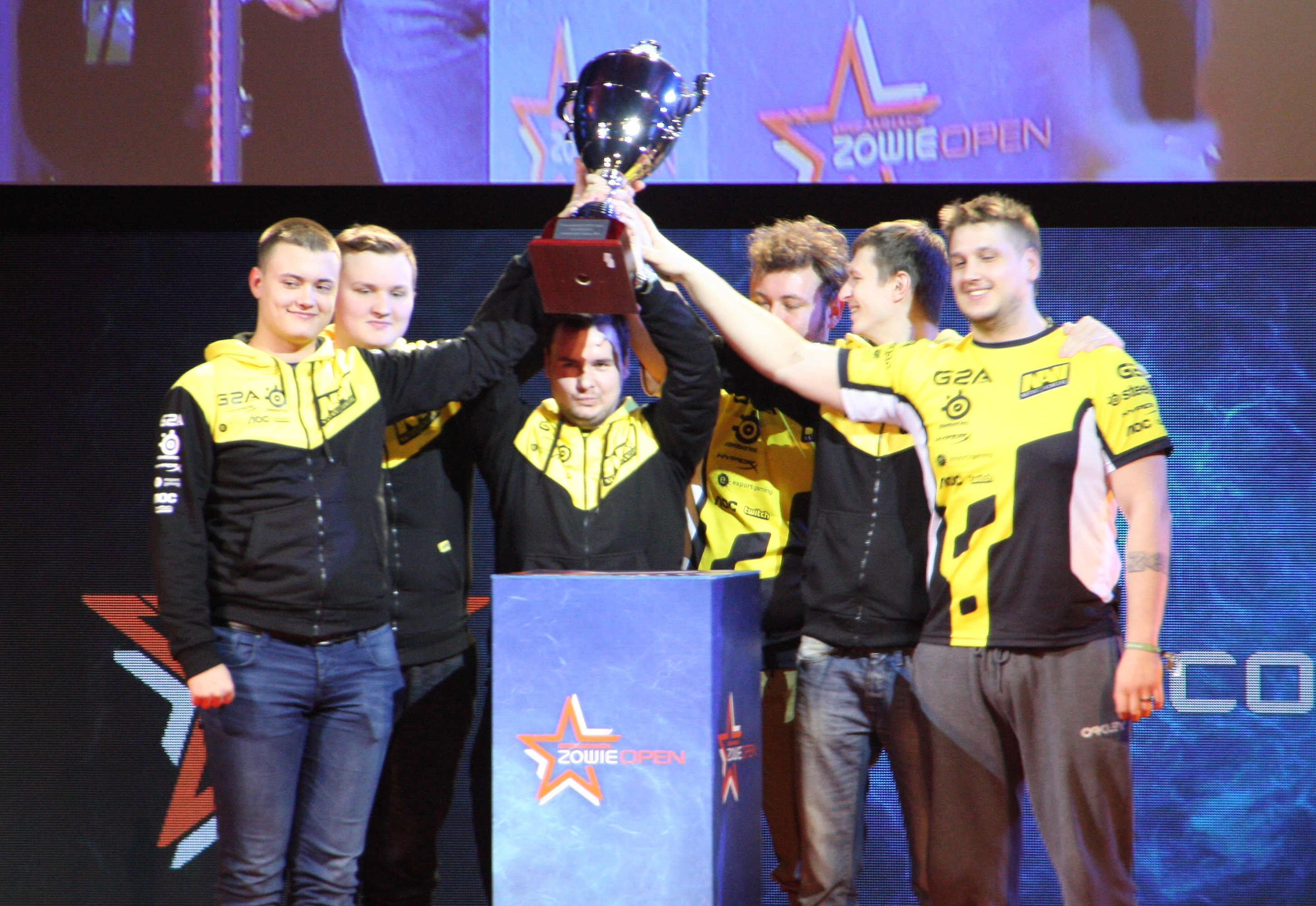 Counter Strike team "Natus Vincere" (NaVi) after winning the CS:GO tournament at DreamHack Leipzig 2016